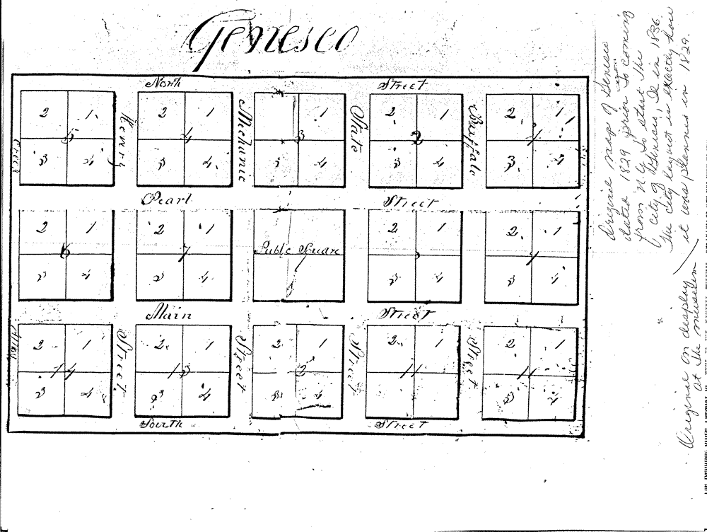 The town plan for Geneseo, Illinois in 1829